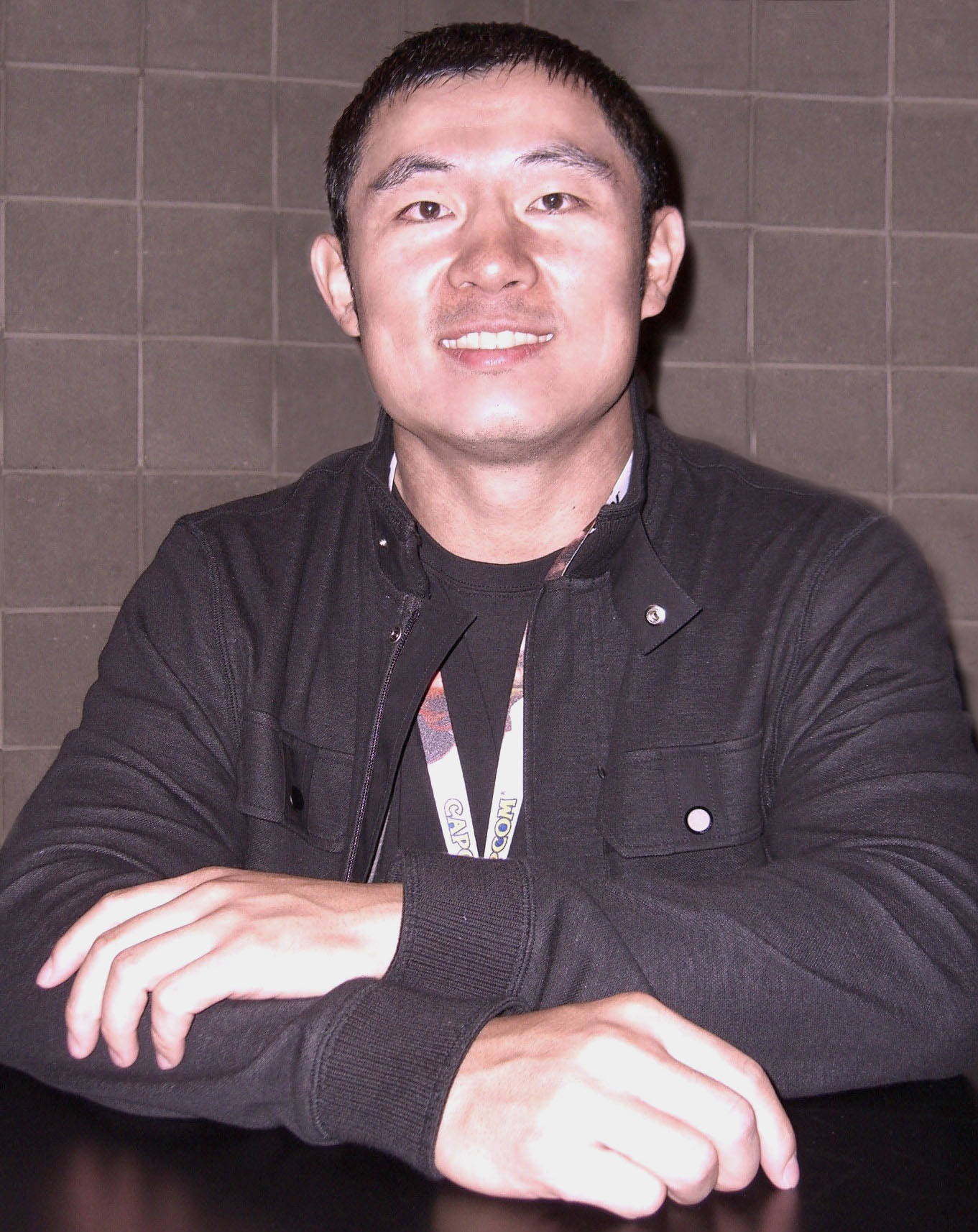 Comic book creator James Zhang at the New York Comic Convention in Manhattan, October 9, 2010. Photo by Luigi Novi. This photo may be used, modified and published for any purpose, only if a easily visible credit to the photographer is placed near the photo in each instance in which it is used. (See licensing information below.) Publication of this photo without this proper attribution constitute copyright infringement. For more information on my photos, you can contact me here.